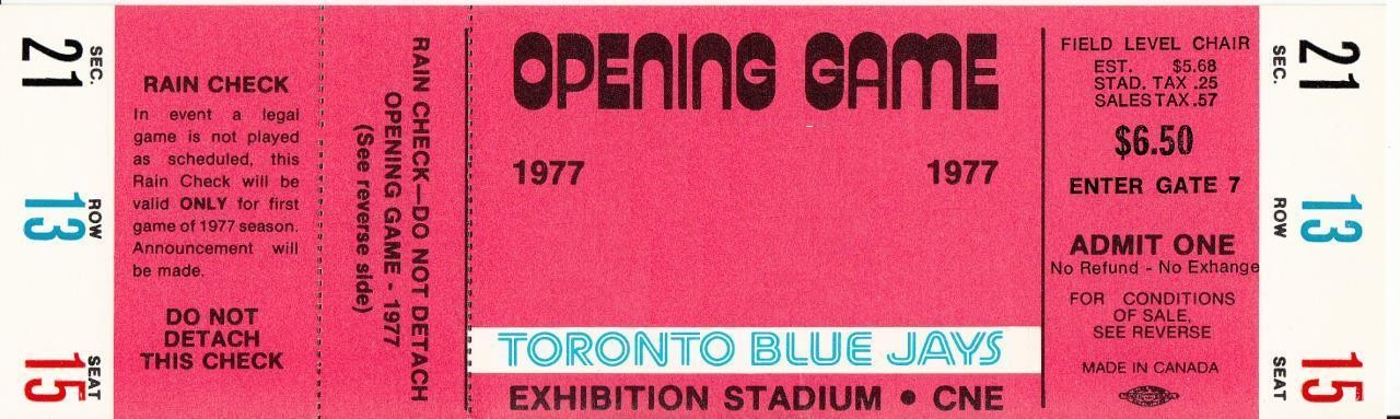 A ticket for an April 7, 1977 Major League Baseball game featuring the Chicago White Sox versus the Toronto Blue Jays at Exhibition Stadium. The Toronto Blue Jays played their first ever regular season match at this game.